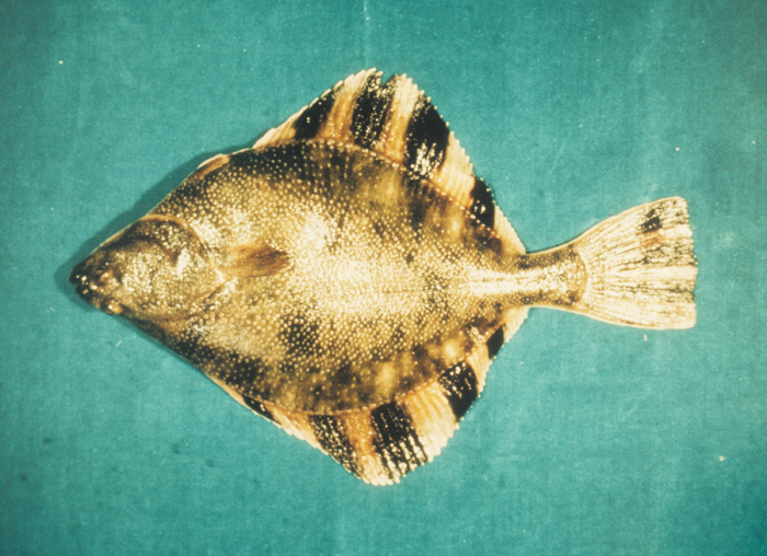 Starry flounder (Platichthys stellatus) at NOAA's Estuarine Research Reserve